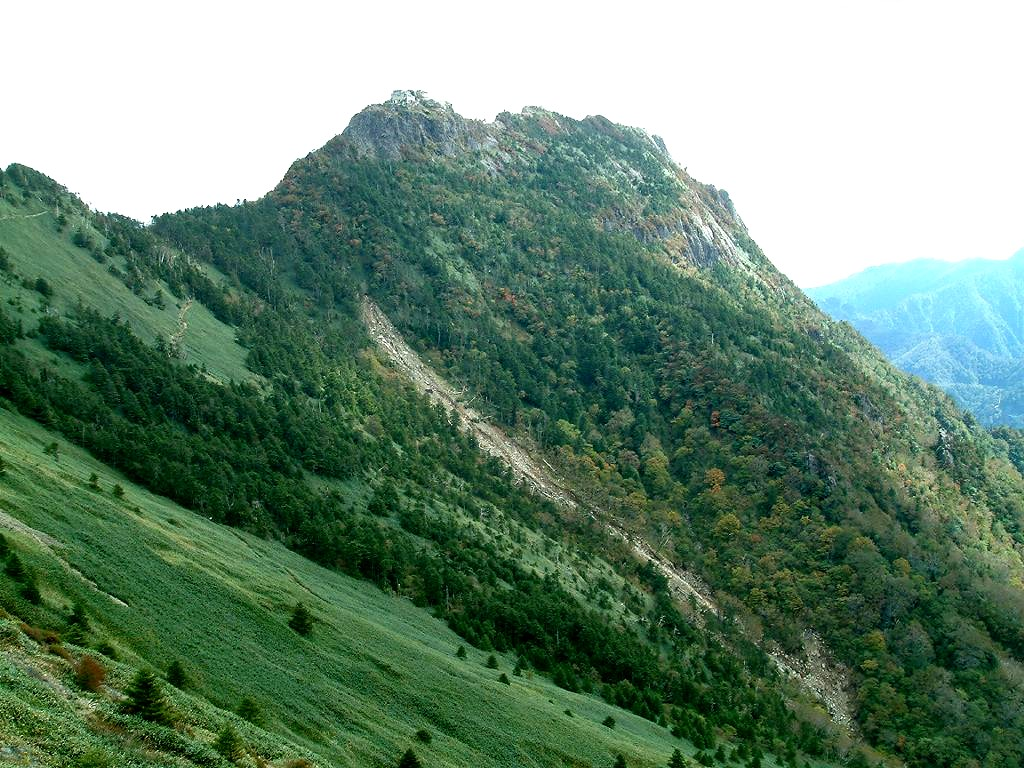 Mount Ishizuchi as seen from the WNW.